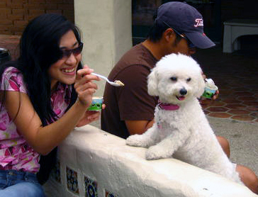 Bichon would enjoy some ice cream, but wisely refuses it.